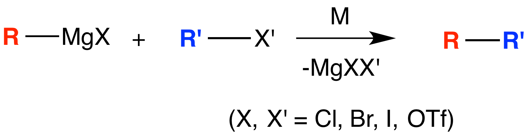 Language-free Scheme for Kumada Coupling